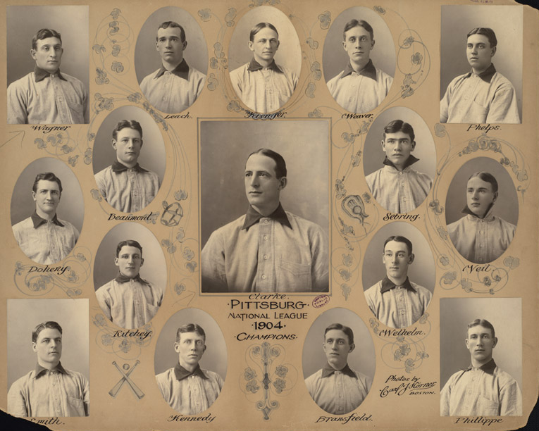 Pittsburgh Pirates Baseball Team, 1904 Description: Individual portraits on mount with decorative vignettes in ink wash. In center, portrait of outfielder Fred Clarke. Top Row, left to right: Honus Wagner, shortstop, Tommy Leach, third baseman, Krenger (possibly Otto Krueger, shortstop?), Art Weaver, catcher, Ed Phelps, catcher. Second row: Ginger Beaumont, outfielder, Jimmy Sebring, outfielder. Middle row: Ed Doheny, pitcher, Clarke, Bucky Veil, pitcher. Fourth Row: Claude Ritchey, second baseman, Kaiser Wilhelm, pitcher. Bottom row: Harry Smith, catcher, Brickyard Kennedy, pitcher, Kitty Bransfield, third baseman, Deacon Phillippe, pitcher. Although the photograph is dated 1904, the players pictured are consistent with the players from the 1903 pennant winning team.Pittsburgh Pirates Baseball Team